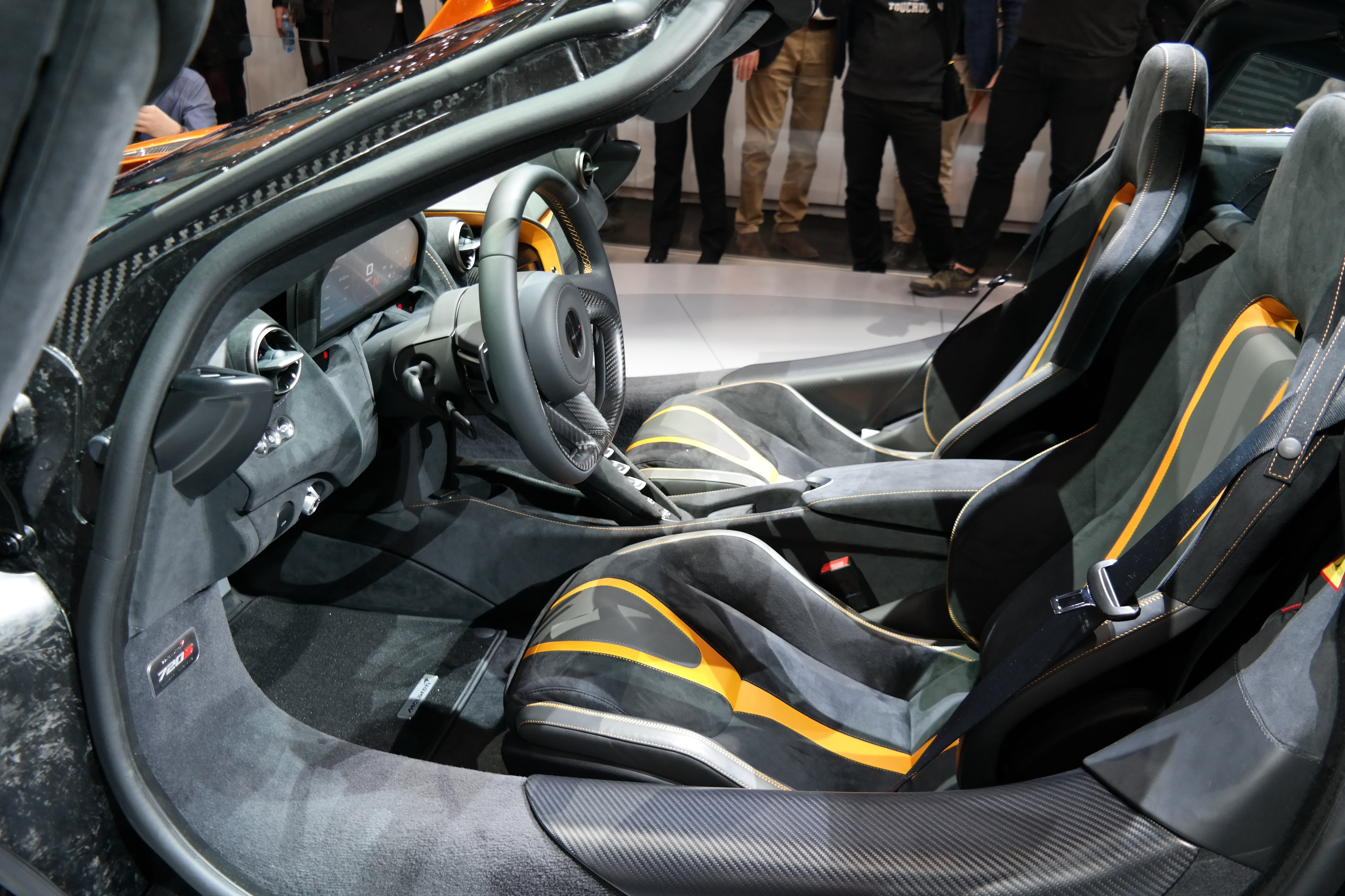 Geneva Motor Show 2017 (photo taken on the first press day)